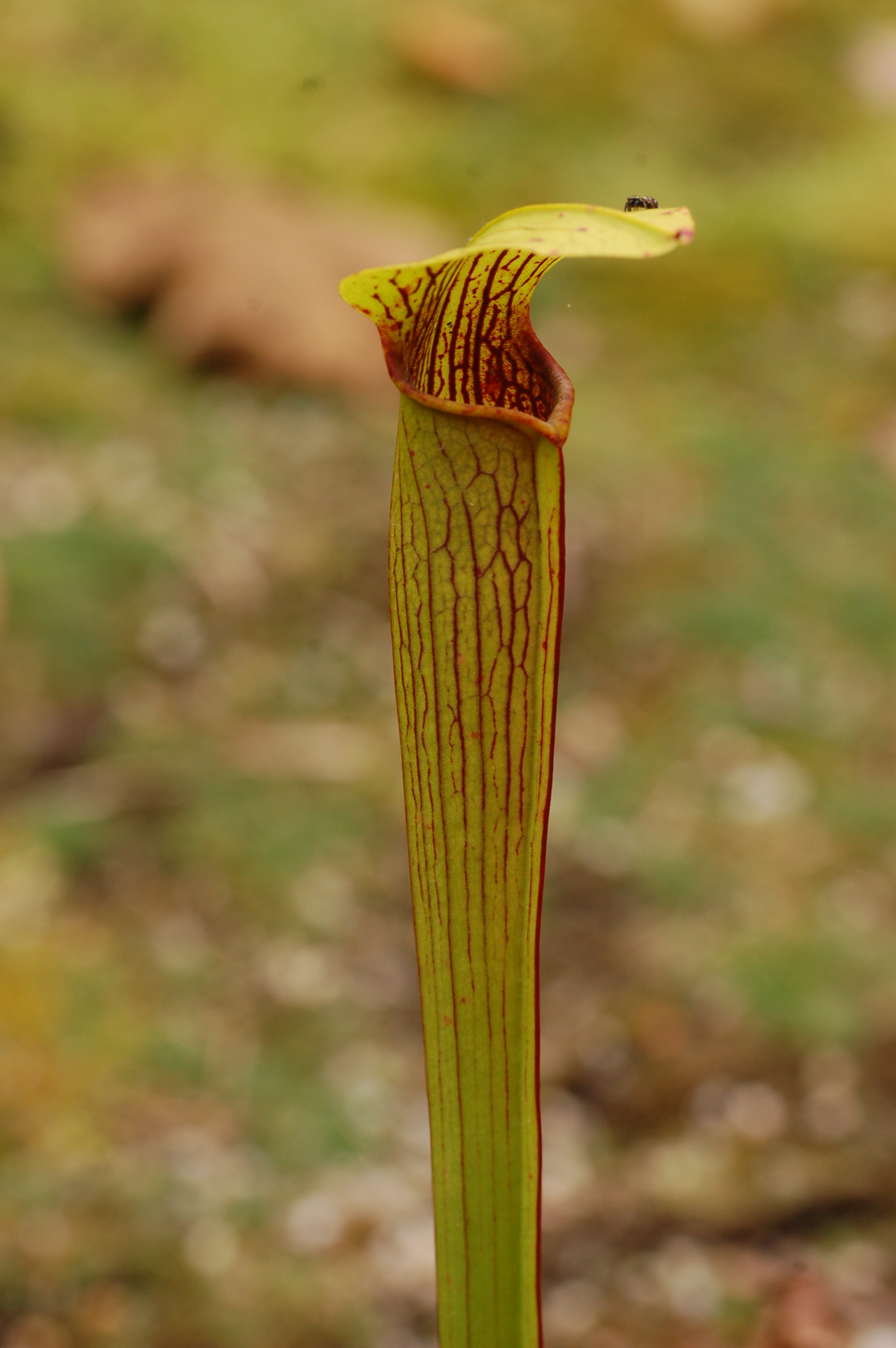 Picture of Pitcher Planten Sarracenia rubra en . Photo taken at the Chanticleer Garden in the bog garden.